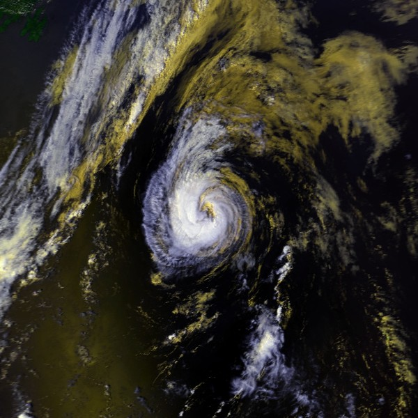 Hurricane Arlene on August 22 at approximately 1737 UTC. This image was produced from data from NOAA-9, provided by NOAA.